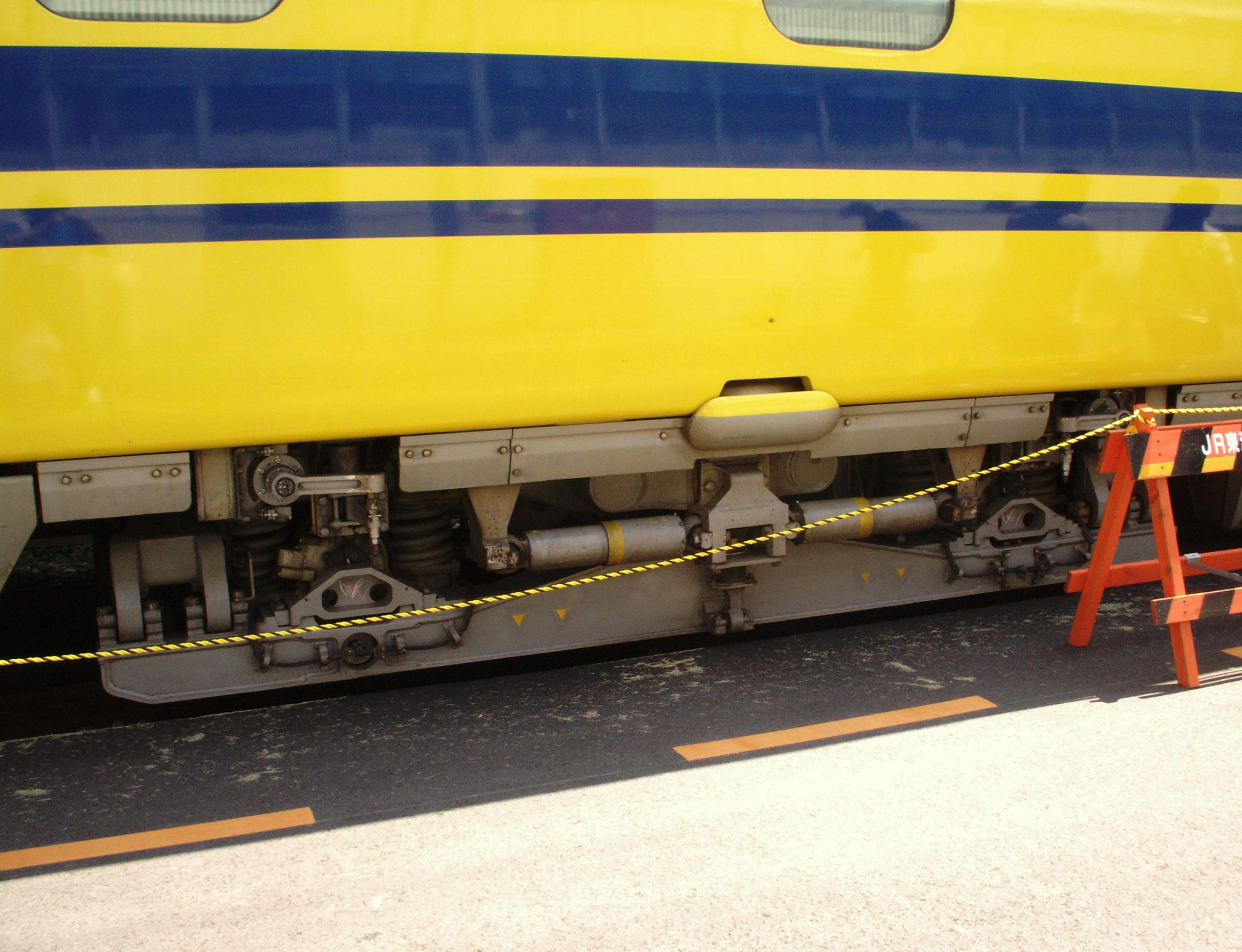 Bogey truck of Shinkansen 923 series inspection train